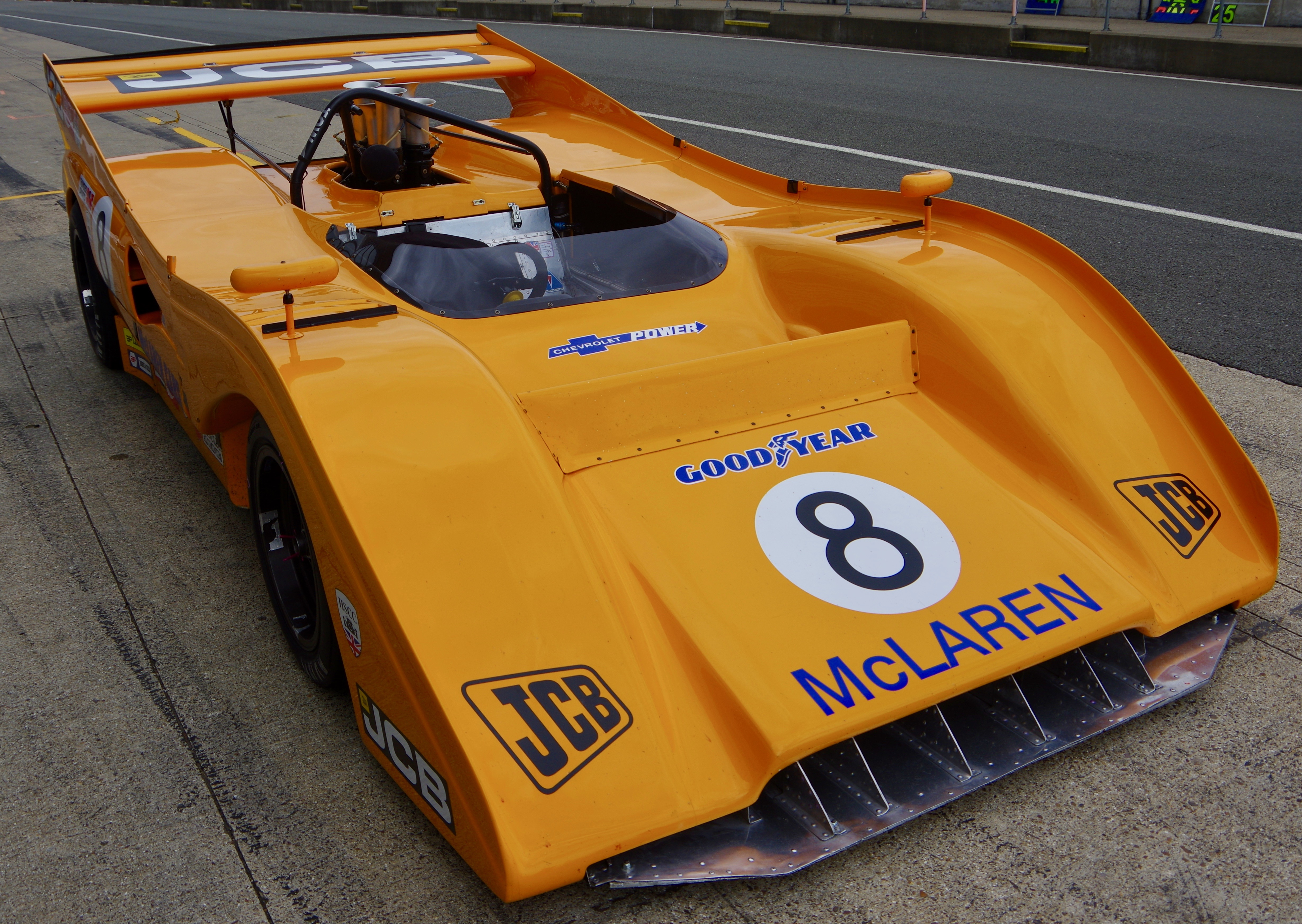 1972 McLaren M8F 2019 Silverstone Classic.